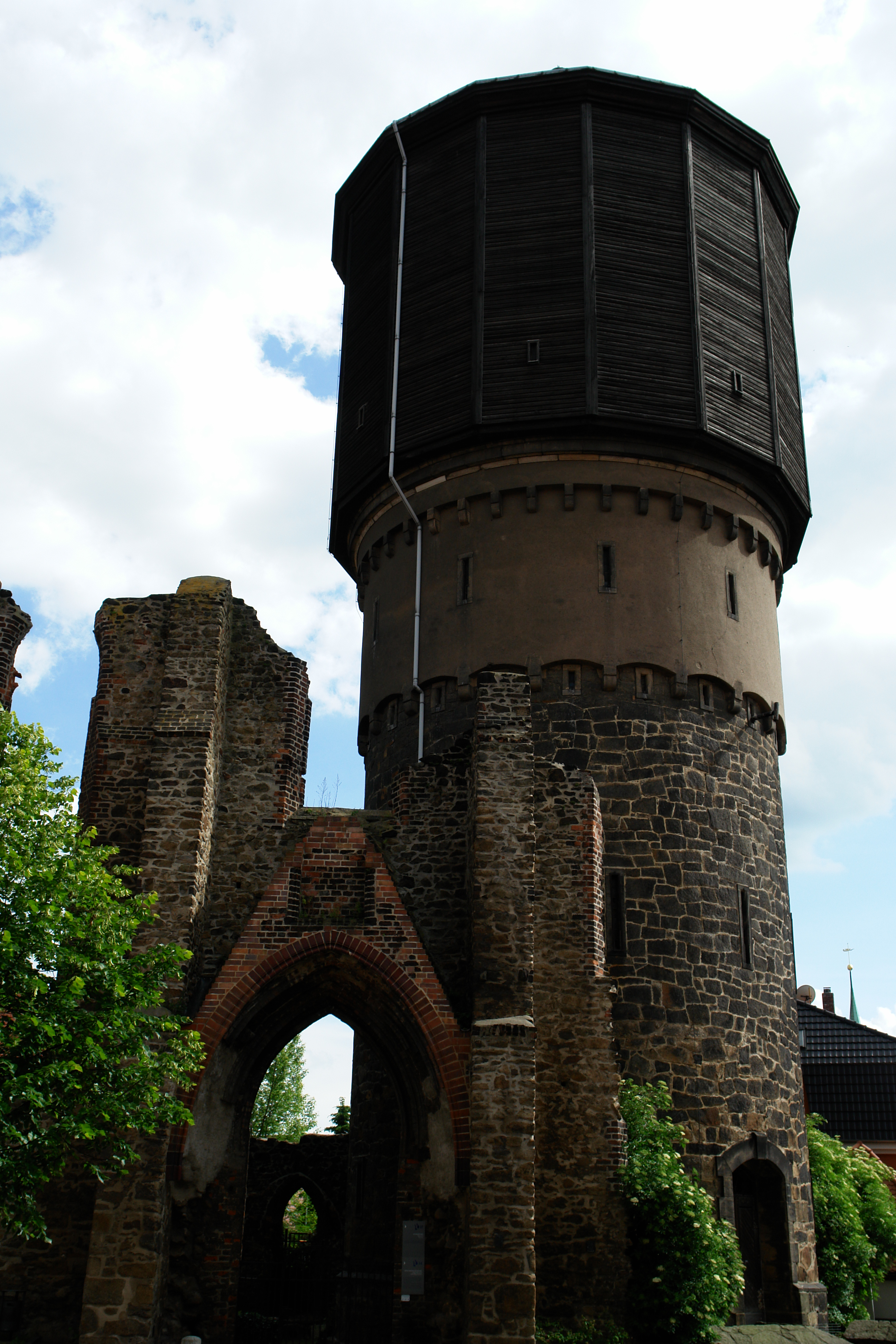 Water tower and claustral ruin in Bautzen, Germany.